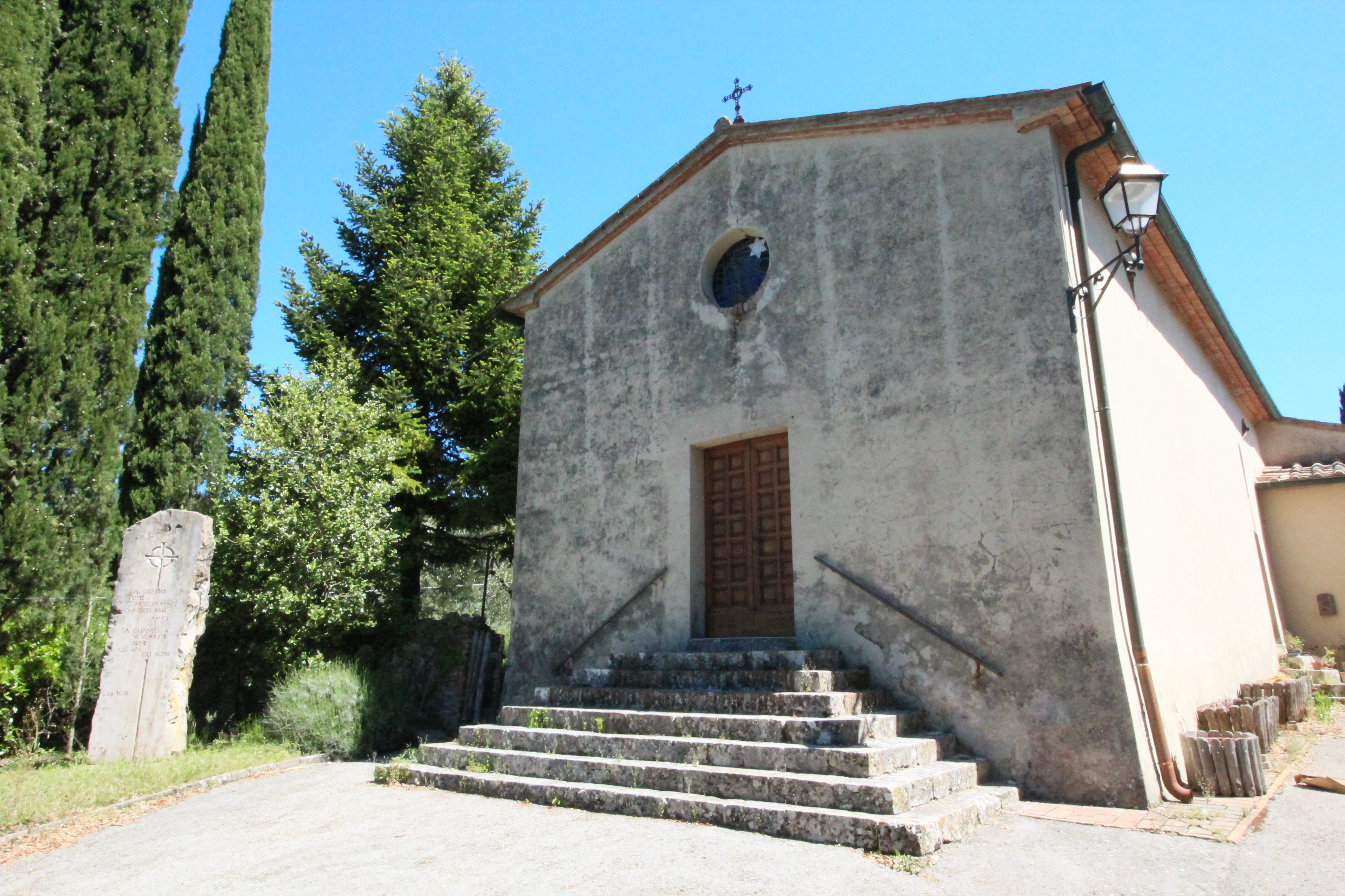 Church San Michele Arcangelo, Iesa, hamlet of Monticiano, Province of Siena, Tuscany, Italy